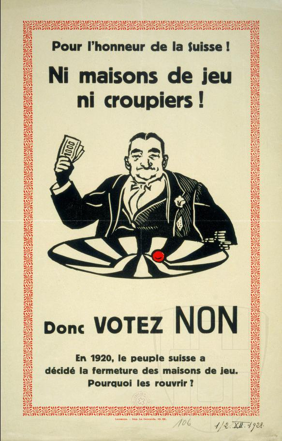 Swiss advertisement for votation regarding Kursaals legislation in 1928